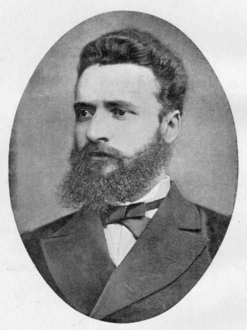 Hristo Botev